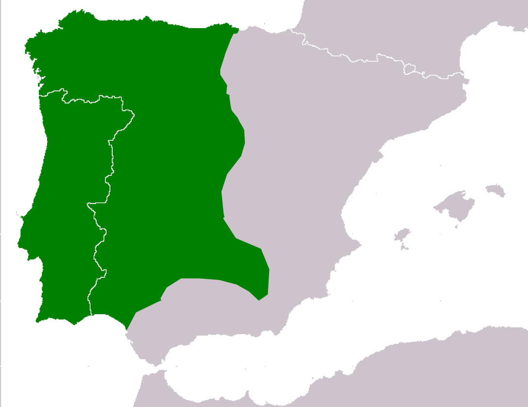 Discoglossus galganoi range map.